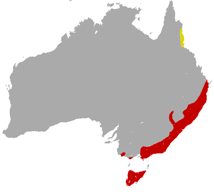 Tiger Quoll (Dasyurus maculatus) range (red — Dasyurus maculatus maculatus, yellow — Dasyurus maculatus gracilis)